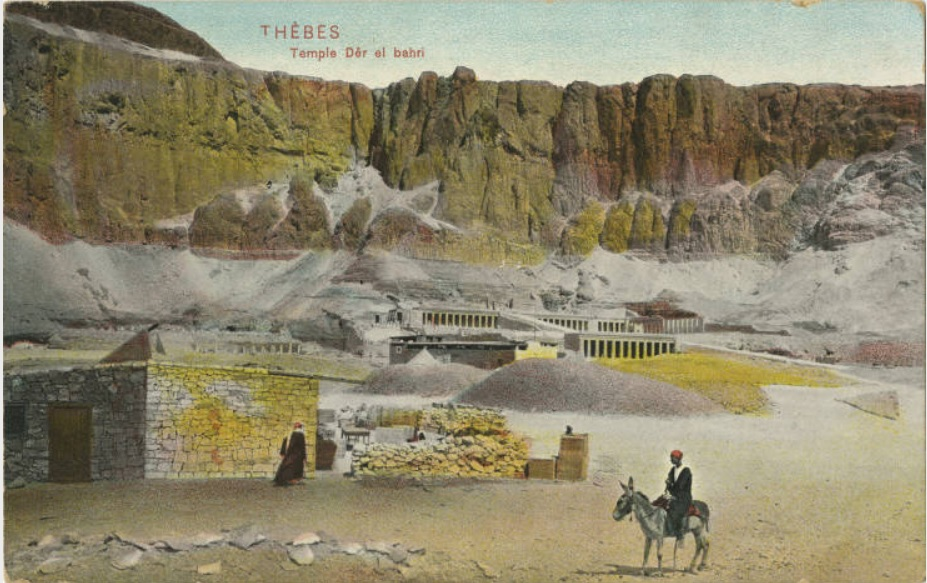 Postcard of the Deir el-Bahari complex